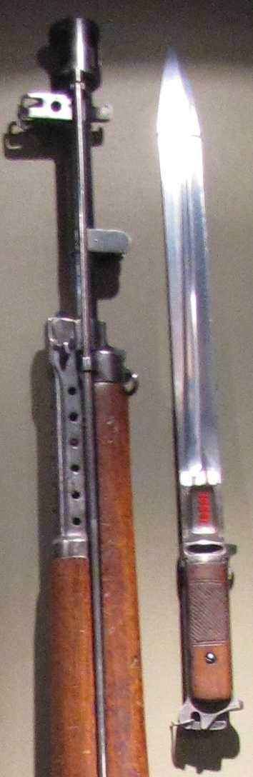 AVS-36 automatic rifle with M/36 bayonet. Photographed in the "Winter War - 70 years" exhibition in the Military Museum of Finland.